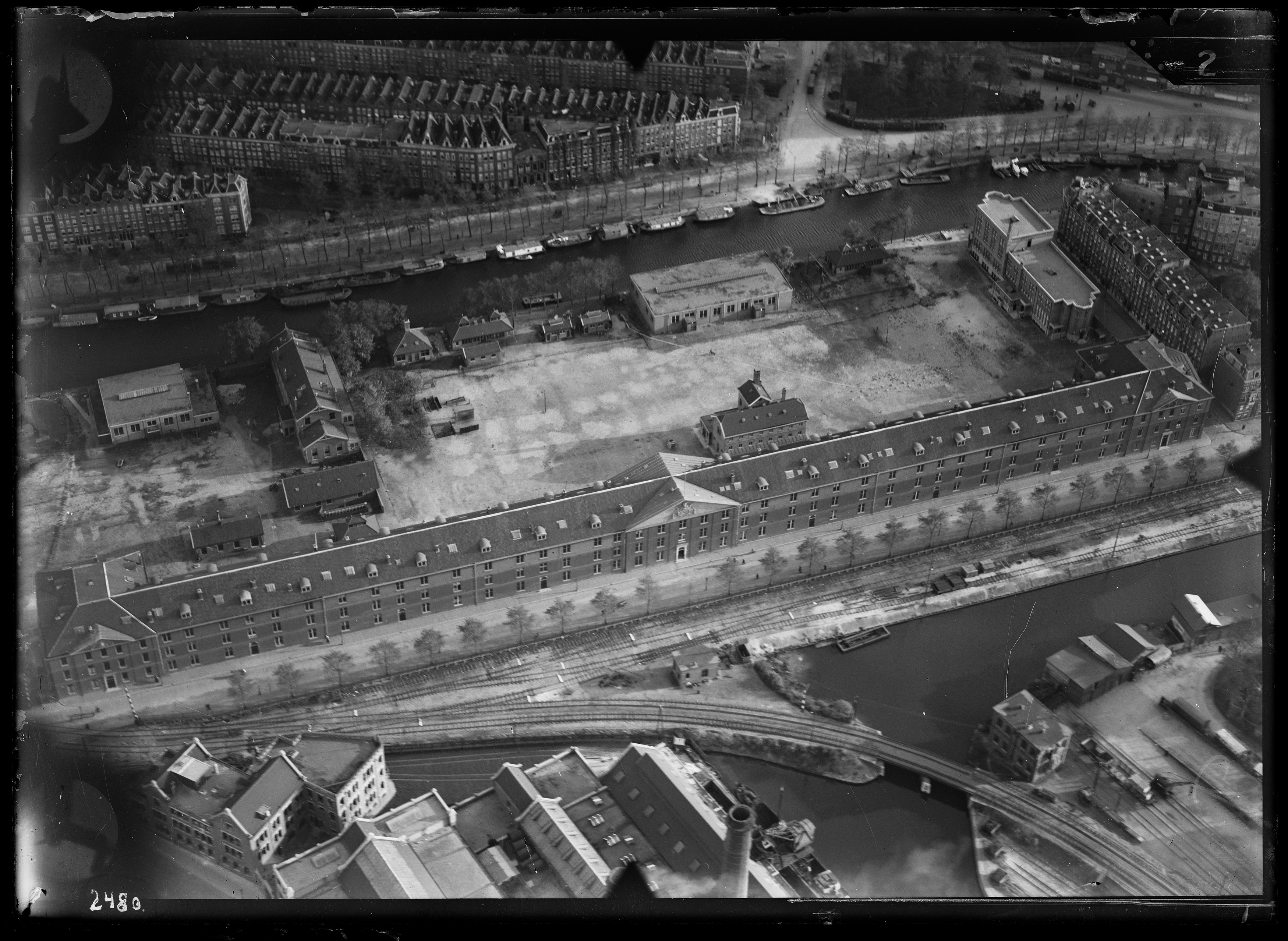 Aerial photograph of Amsterdam, The Netherlands